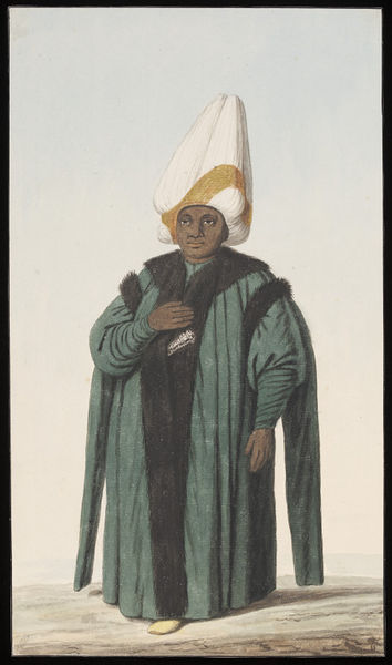 The Hazinedar Agha (harem treasurer) or possibly the Kizlar Agha (head of the harem eunuchs)